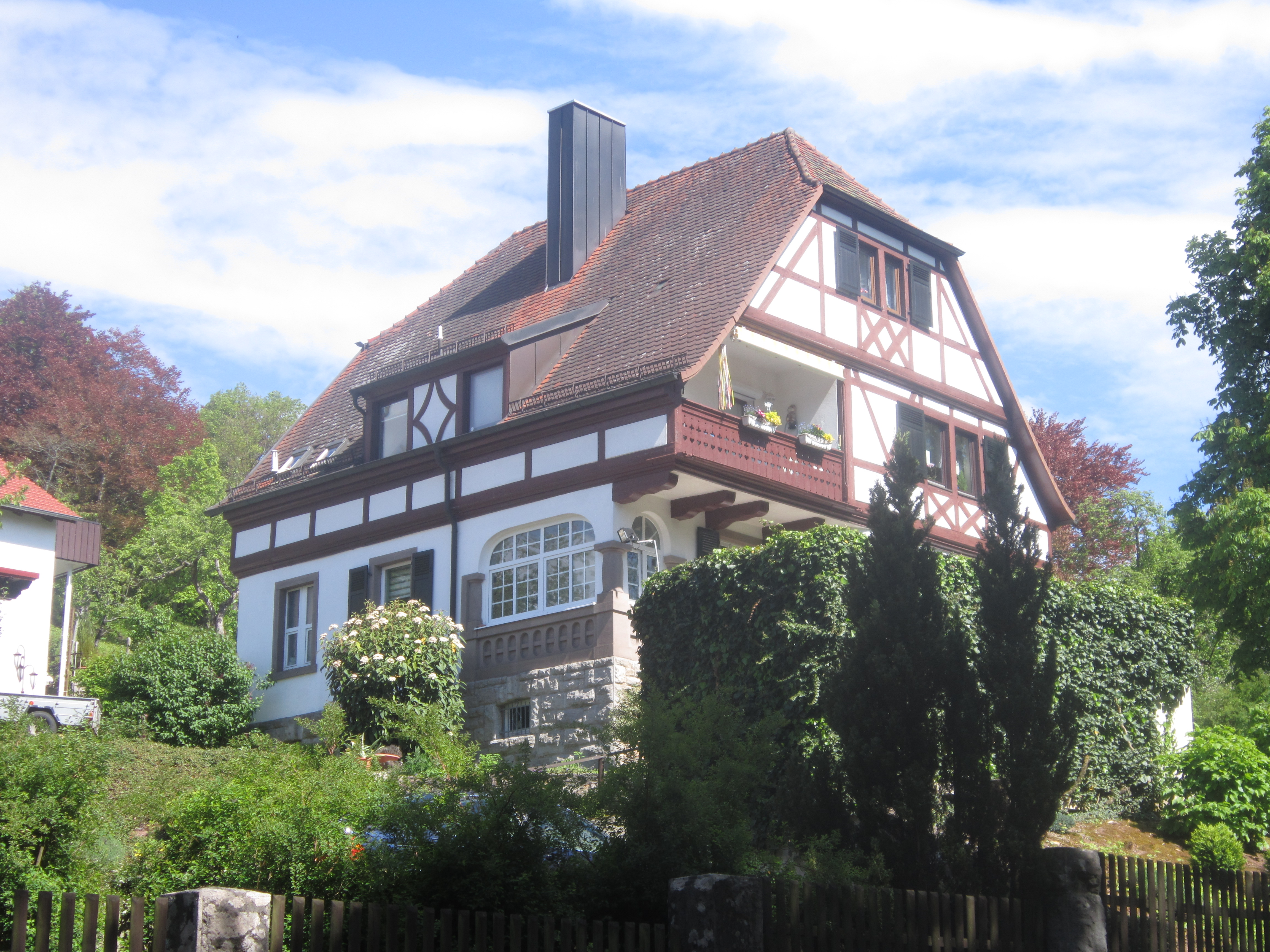 Building in Reiterswiesen, a quarter of the German spa town of Bad Kissingen in Lower Franconia (Bavaria), Address: Kissinger Straße 131.